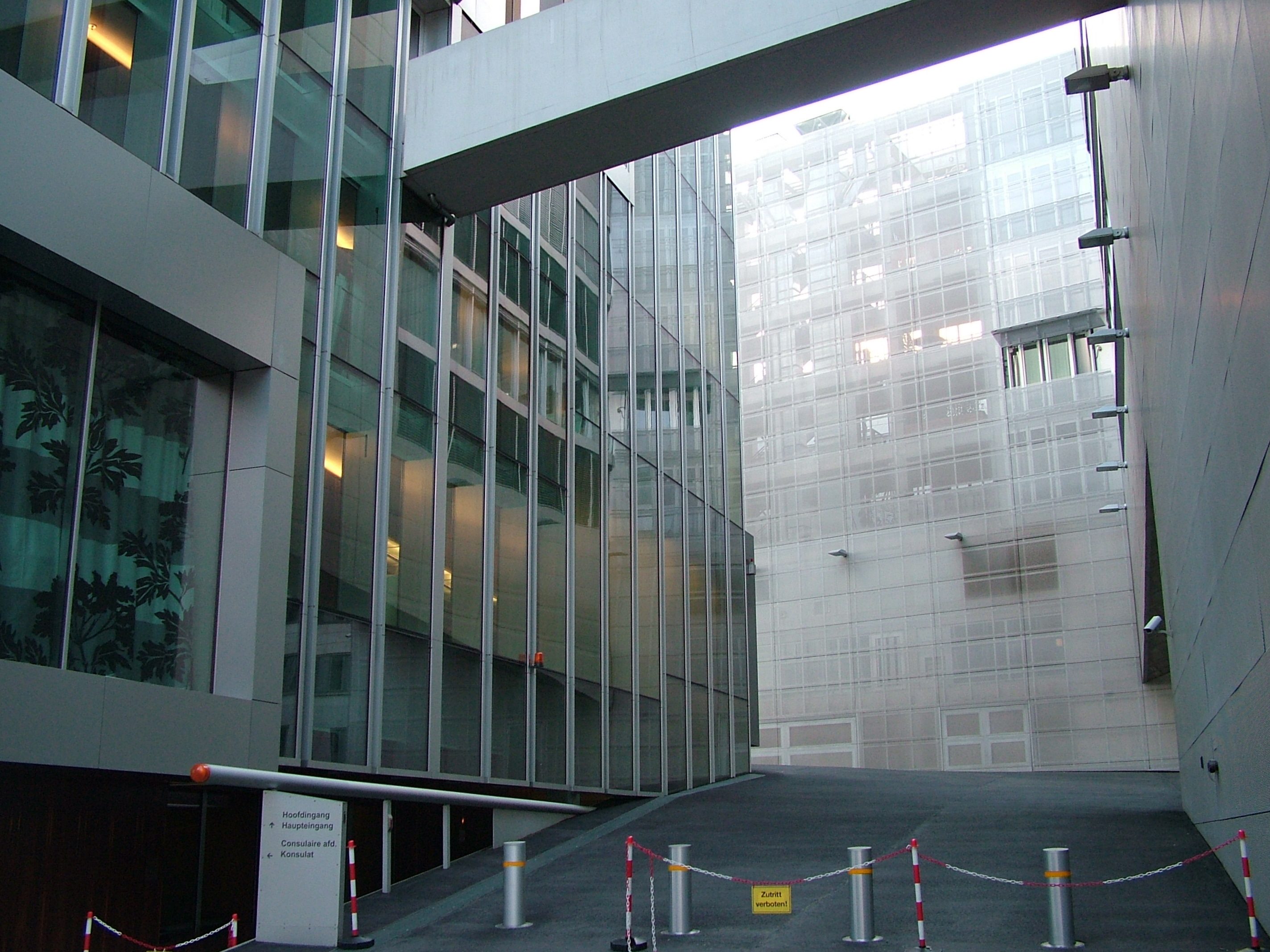 Dutch embassy, Berlin.